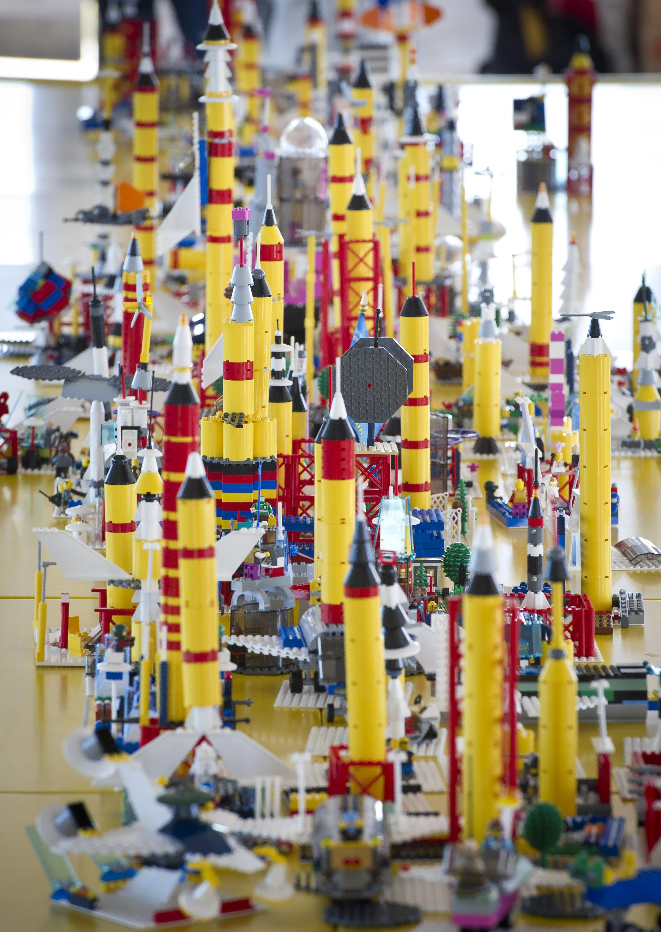 Students used LEGO bricks to 'Build the Future' at NASA's Kennedy Space Center in Cape Canaveral, Fla. on Wednesday, Nov. 3, 2010. The 'Build the Future' event was part of pre-launch activities for the STS-133 mission.